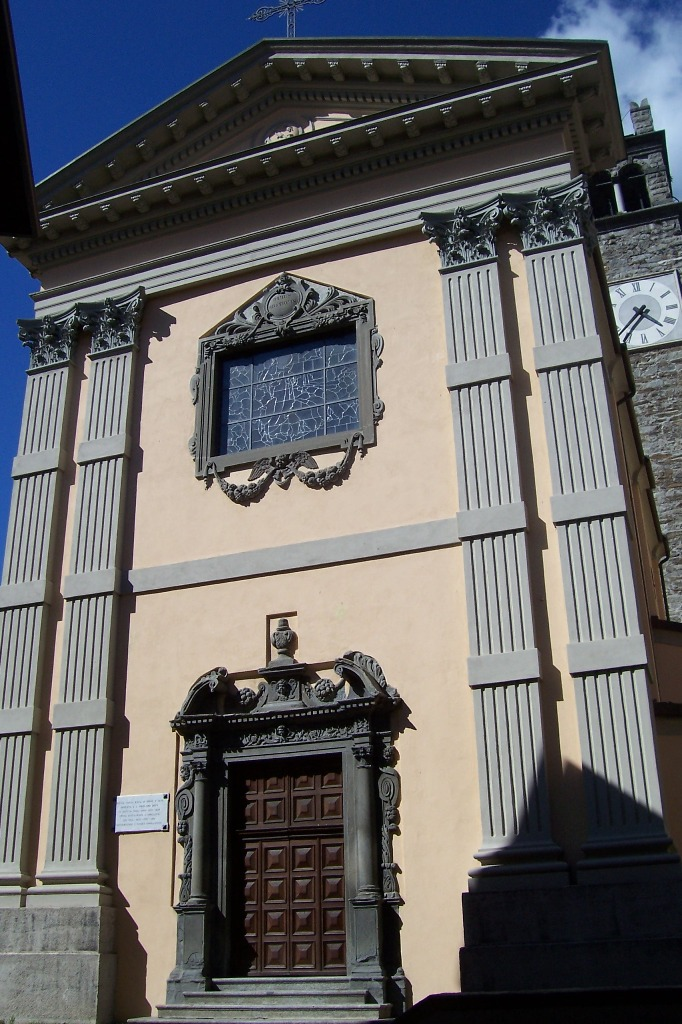 Parish church of Saint Jerome. Cedegolo, Val Camonica